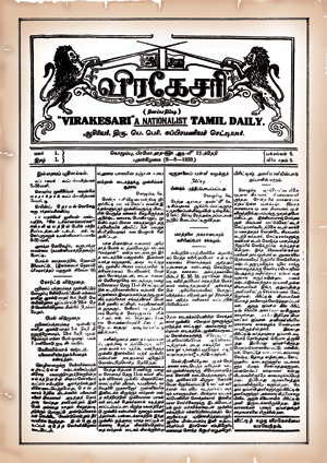 Front page of the newspaper Virakesari on August 6, 1930